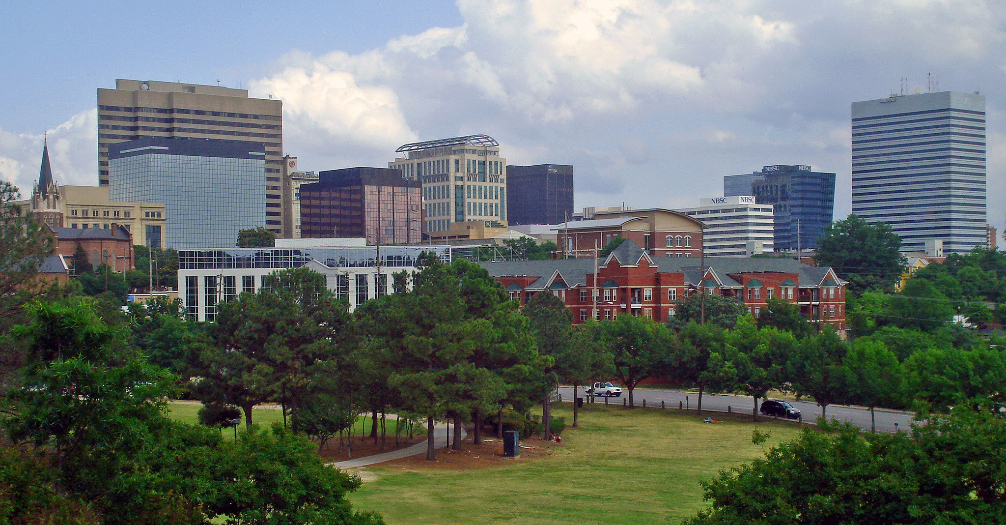 skyline of downtown Columbia, South Carolina, USA from Arsenal Hill